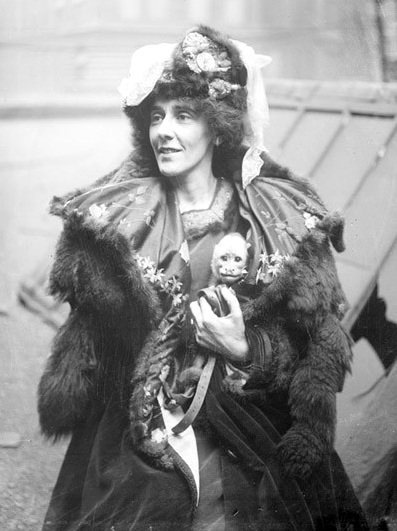 Constance Crawley in a Chicago train station with her pet monkey